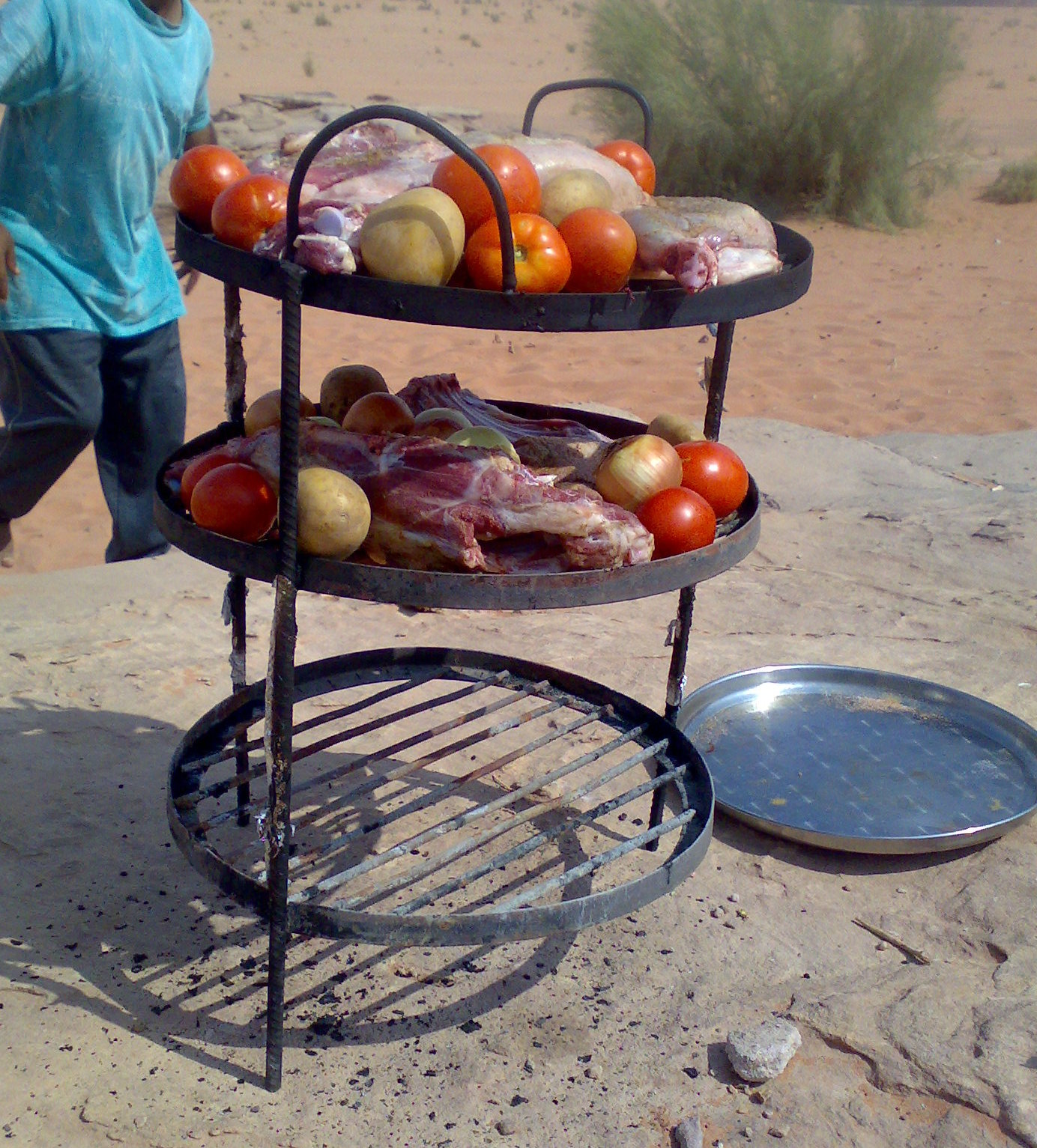 Cooked Zarb (زرب) (Also called Haneeth حنيذ) being prepared. Fresh lamb meat is placed on trays and accompanied by fresh tomatoes and onions and a pot of rice. The trays are inserted onto baking column. The baking column is inserted into a barrel dug underground. The source of heat are the burning coals of dried branches of black saxaul / sacsaoul (Haloxylon ammodendron). out of its underground cooking hole (barrel oven). Cooking time is -+2 hours. Location: Hisma desert (a.k.a Wadi Rum), Jordan تحضير الزرب (الحنيذ) في صحراء حسمى في الأردن: يوضع لحم الخروف الطازج على صواني حديدية مع الطماطم والبصل وقدر من الأرز، وتوضع الصواني على هيكل معدني قبل ادخالها ببرميل تحت الأرض كان قد تم اشعال حطب من الغضى فيه حتى همدت ناره وغدا جمراً. مدة الطبخ بحدود ساعتين. في